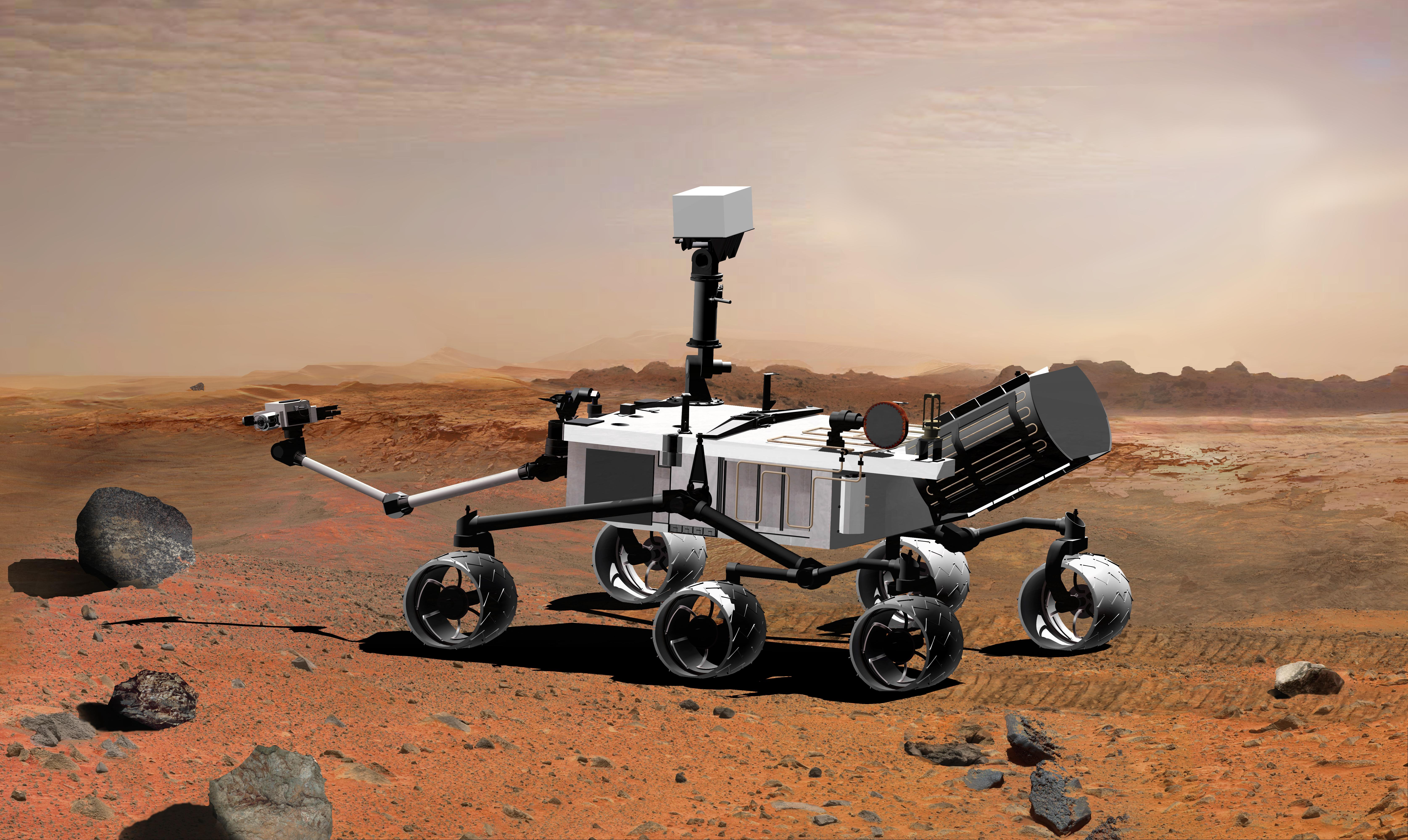 NASA's Mars Science Laboratory, a mobile robot for investigating Mars' past or present ability to sustain microbial life, is in development for a launch opportunity in 2009. This picture is an artist's concept portraying what the advanced rover would look like in Martian terrain, from a side aft angle. The arm extending from the front of the rover is designed both to position some of the rover's instruments onto selected rocks or soil targets and also to collect samples for analysis by other instruments. Near the base of the arm is a sample preparation and handling system designed to grind samples, such as rock cores or small pebbles, and distribute the material to analytical instruments. The mast, rising to about 2.1 meters (6.9 feet) above ground level, supports two remote-sensing instruments: the Mast Camera for stereo color viewing of surrounding terrain and material collected by the arm, and the ChemCam for analyzing the types of atoms in material that laser pulses have vaporized from rocks or soil targets up to about 9 meters (30 feet) away.